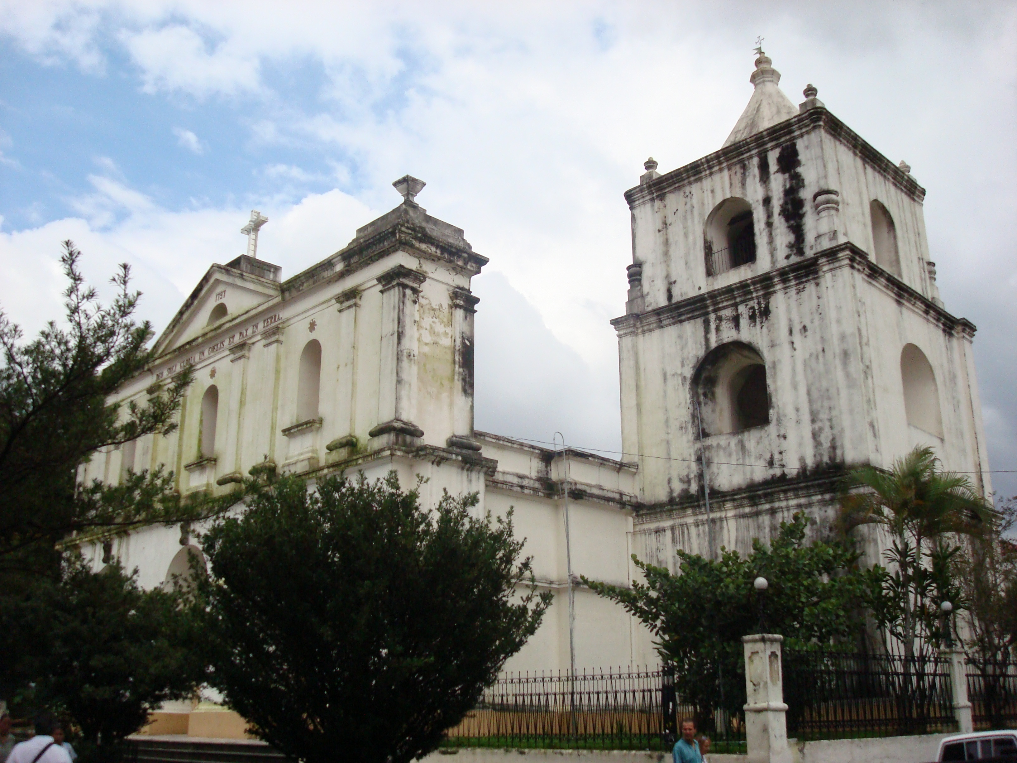 Church